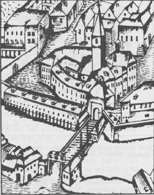 Ljubljana City Spital, churches and Spital Bridge in c. 1660.